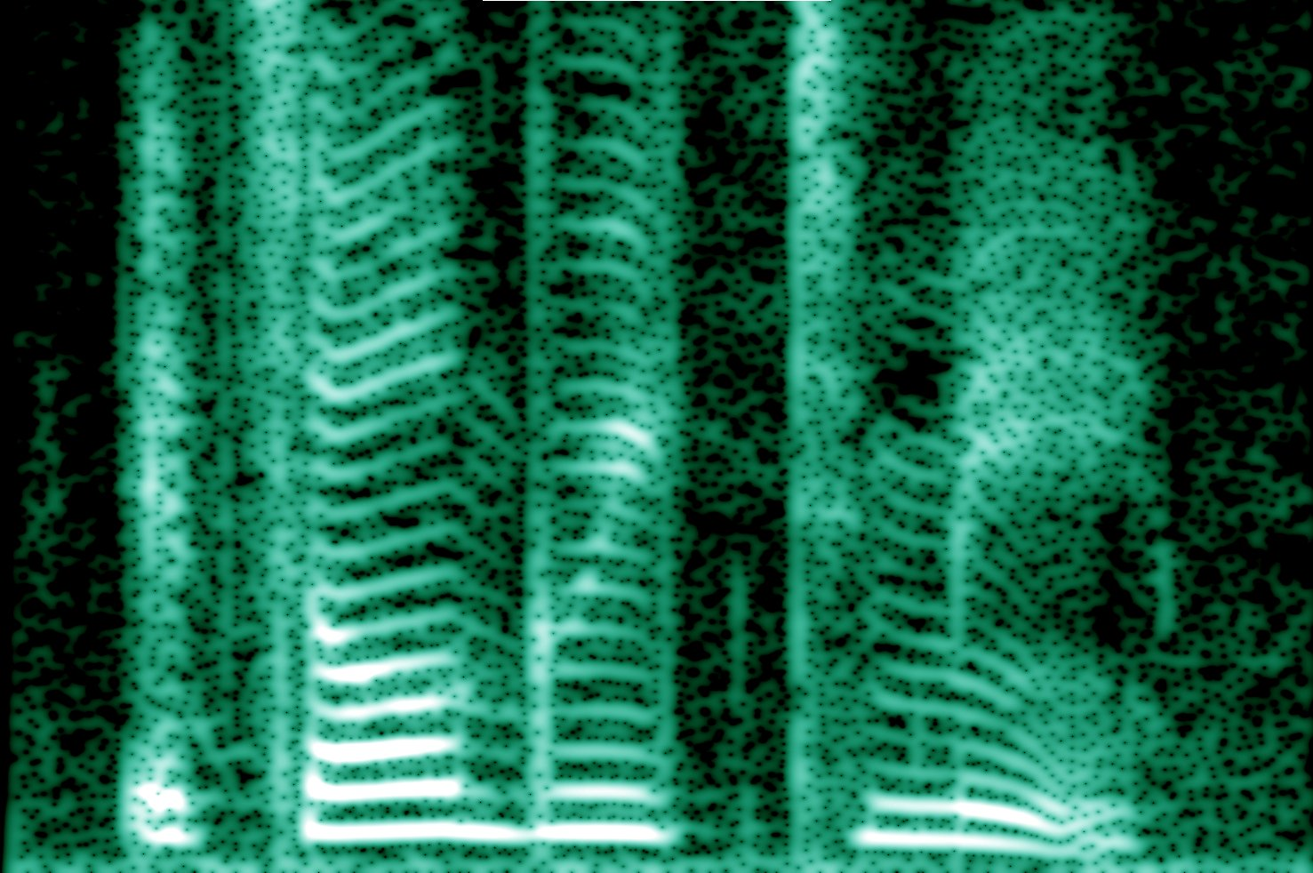 A spectrogram (0-5000 Hz) of the sentence "it's all Greek to me" spoken by a female voice (File:en-us-it's all Greek to me.ogg).